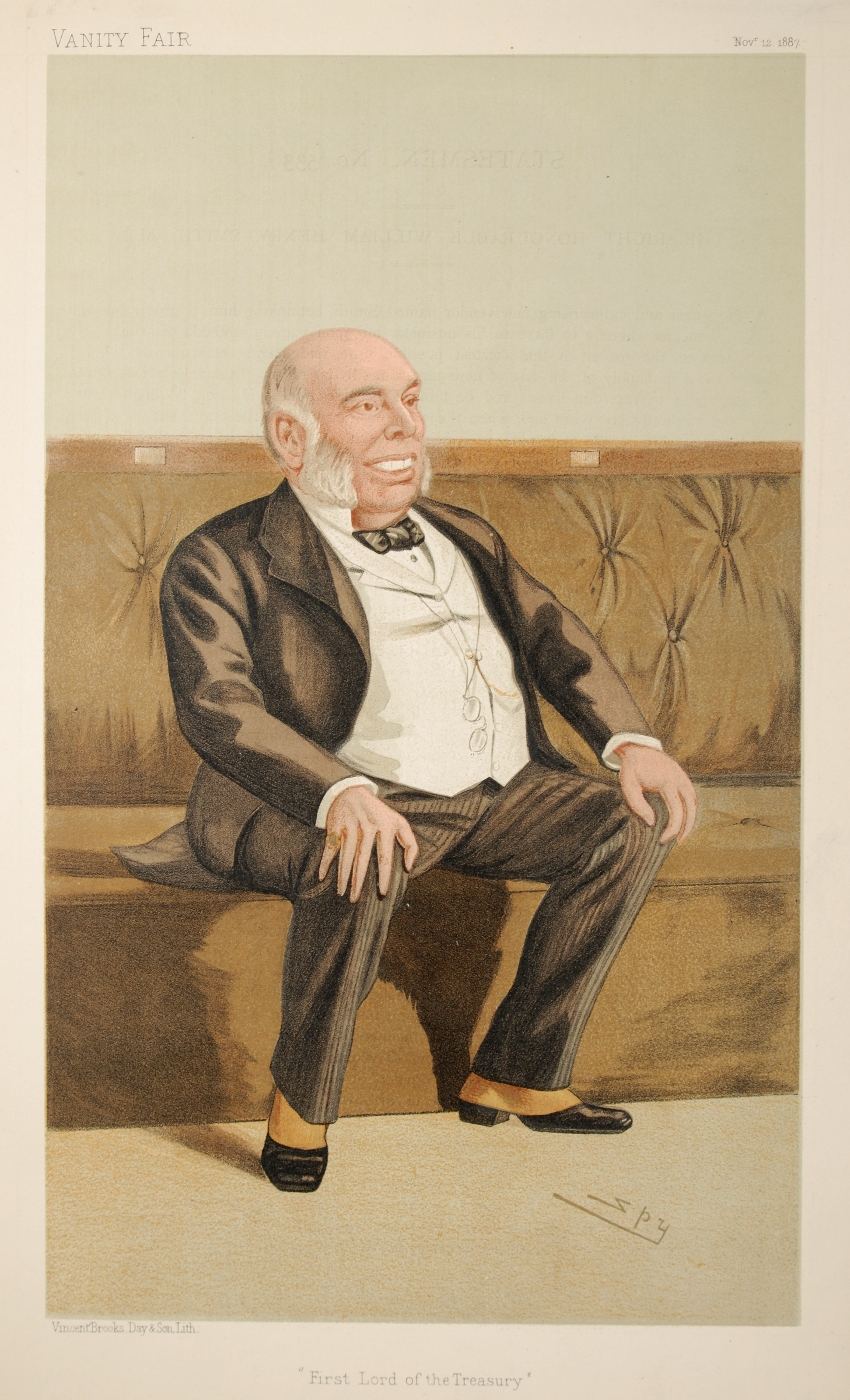 Statesmen No.533: Caricature of The Rt Hon WH Smith MP. Caption reads: "First Lord of the Treasury"